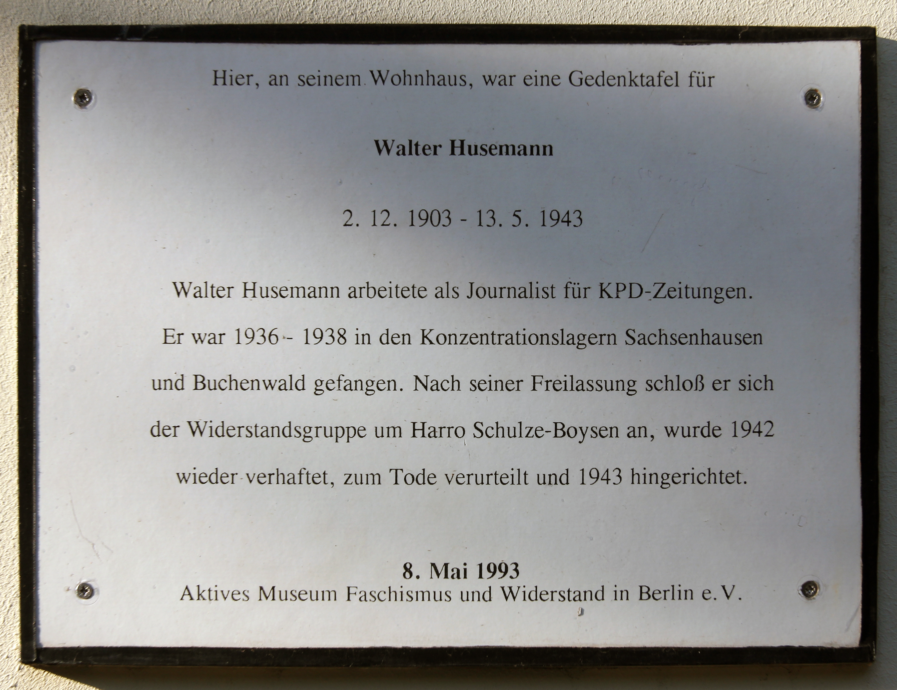 Memorial plaque, Walter Husemann, Florastraße 26, Berlin-Pankow, Germany